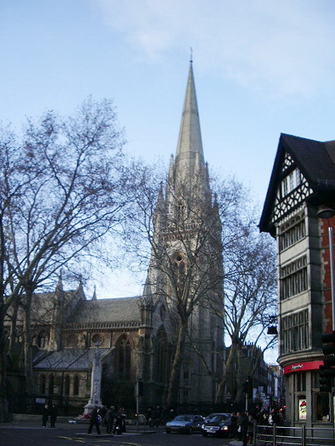 St Marys Abbots Church, Kensington Creative Commons Attribution Share-alike license 2.0 Licensing This image was taken from the Geograph project collection. See this photograph's page on the Geograph website for the photographer's contact details. The copyright on this image is owned by Alexander P Kapp and is licensed for reuse under the Creative Commons Attribution-ShareAlike 2.0 license. Attribution: Alexander P Kapp